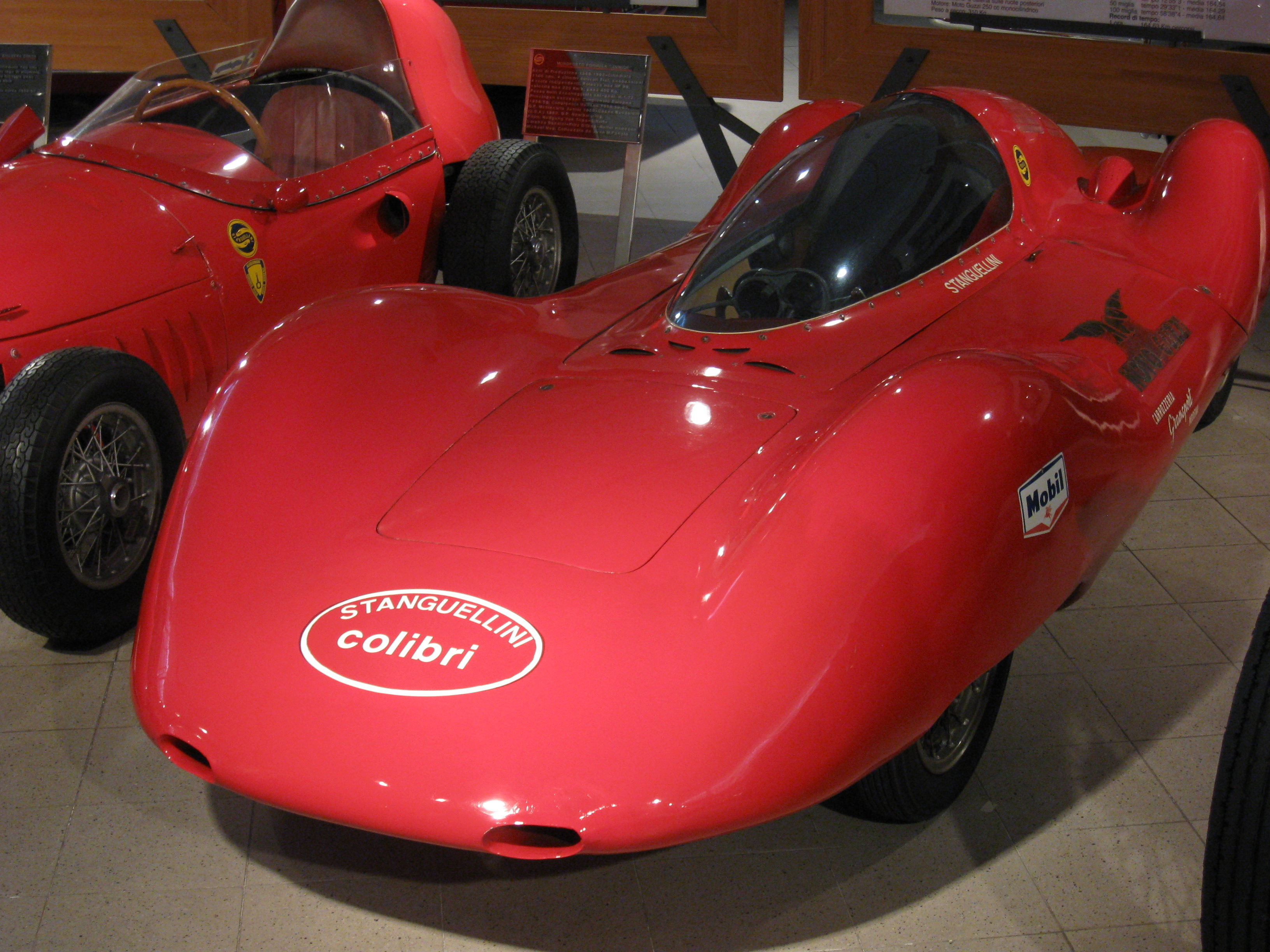 1963 streamlined record car "Colibri", built by Vittorio Stanguellini powered by a 250cc Moto Guzzi motorcycle engine. This car set six international speed records at Monza, Italy (Stanguellini Museum)